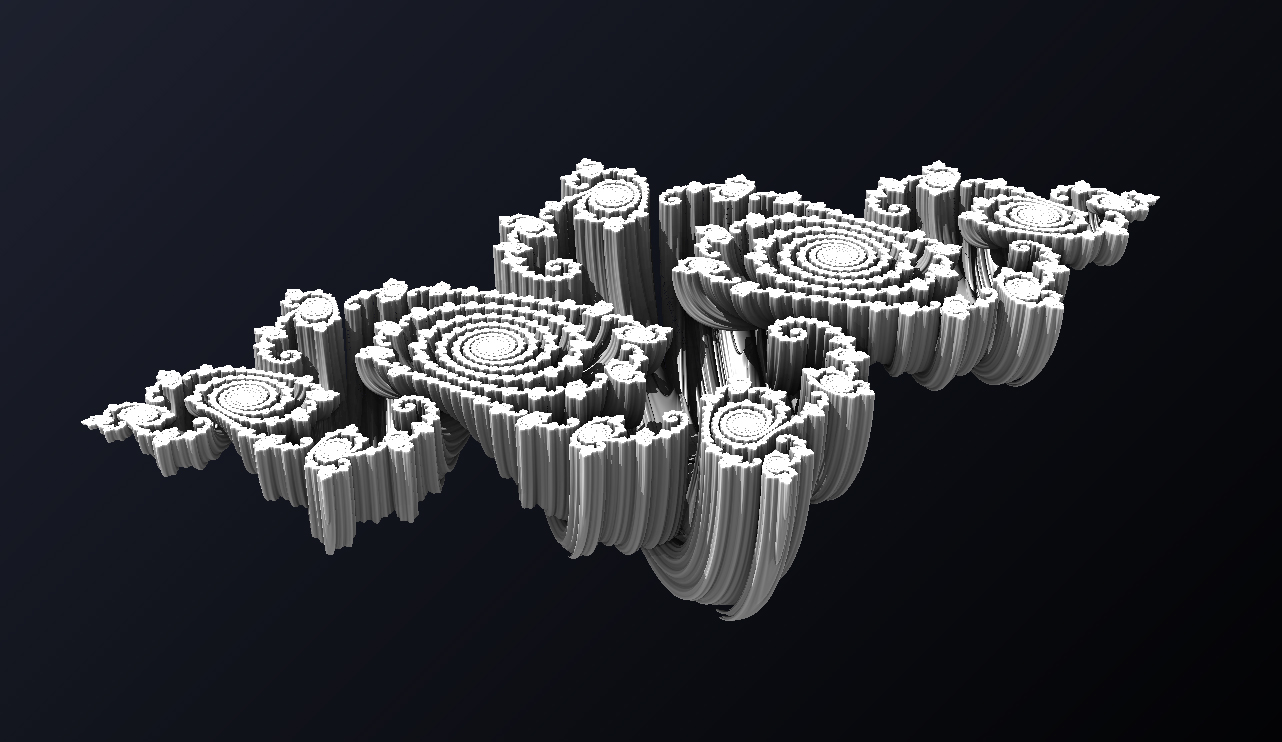 Quaternion julia set with parameters c = -0,75-0,14i and with a cross-section in the XY plane. These parameters yield a high fractal dimension, close to 2. Rendered with Mandelbulber 0.80.